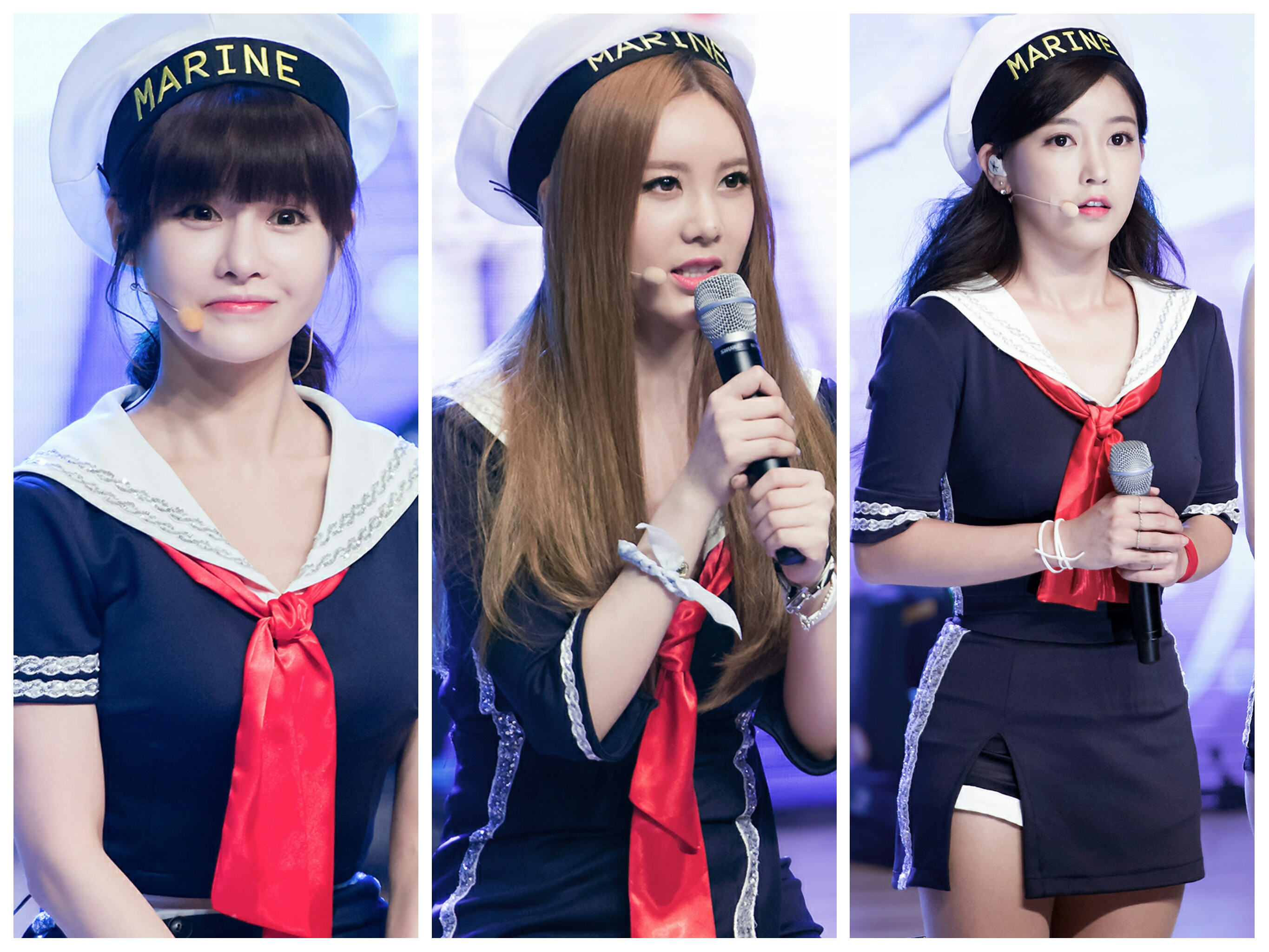 QBS members during a showcase on August 3, 2015